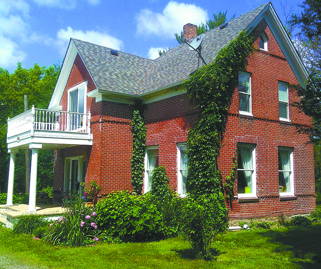 This photo was taken after Bob Mould lived here, but it is of the house that he lived in during his time in Pine City. He sequestered himself here after the band Hüsker Dü broke up and it's where he wrote his first solo album.